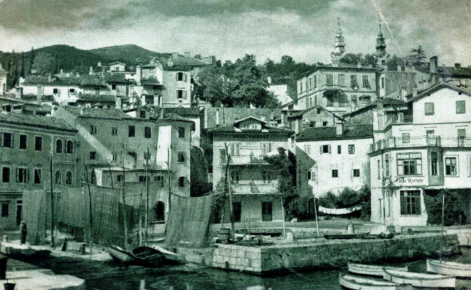 Old Postcard of Voloskо, Opatia This media file is produced by Wikipedian in Residence in Category:Wikipedian in Residence at DARM in 2016.